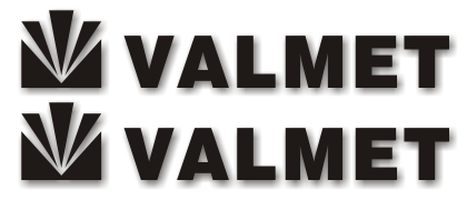 Valmetlogo4